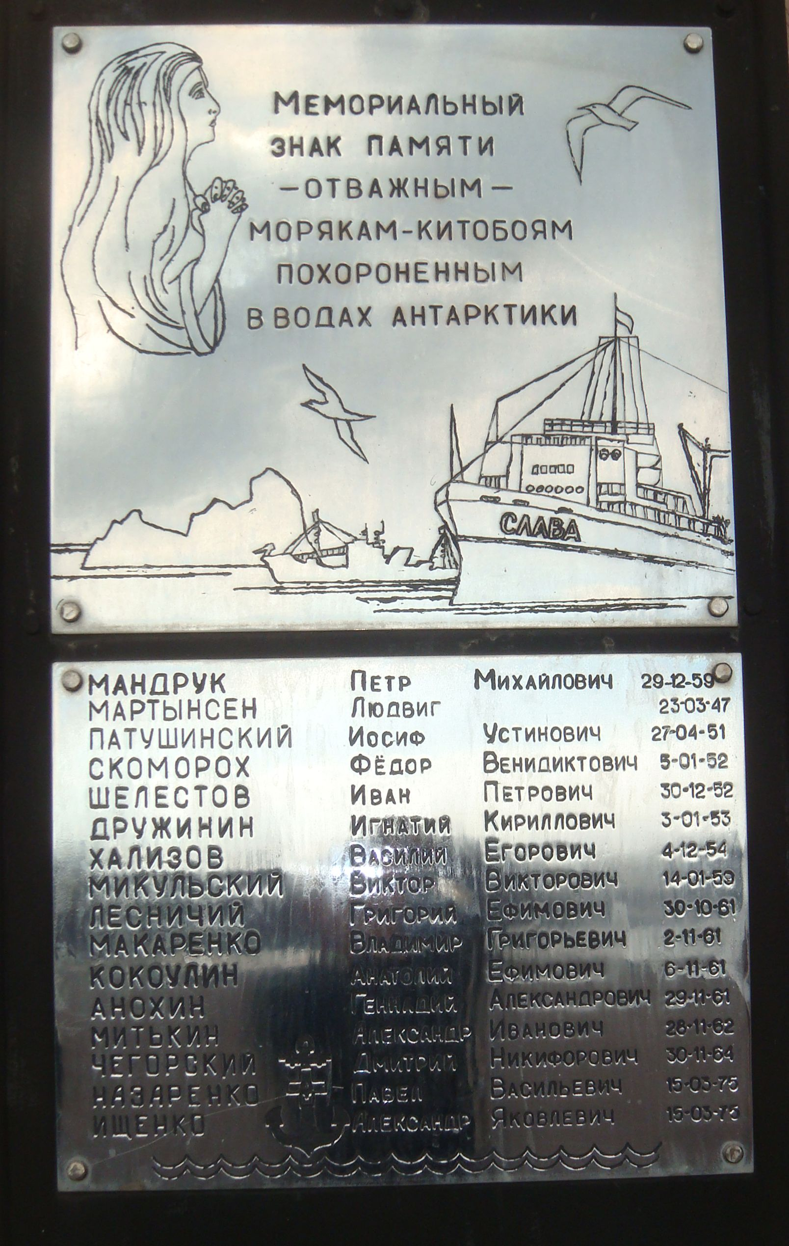 Commemorative plaque dedicated to drowned sailors of Soviet antarctica waler fleet in Odessa port